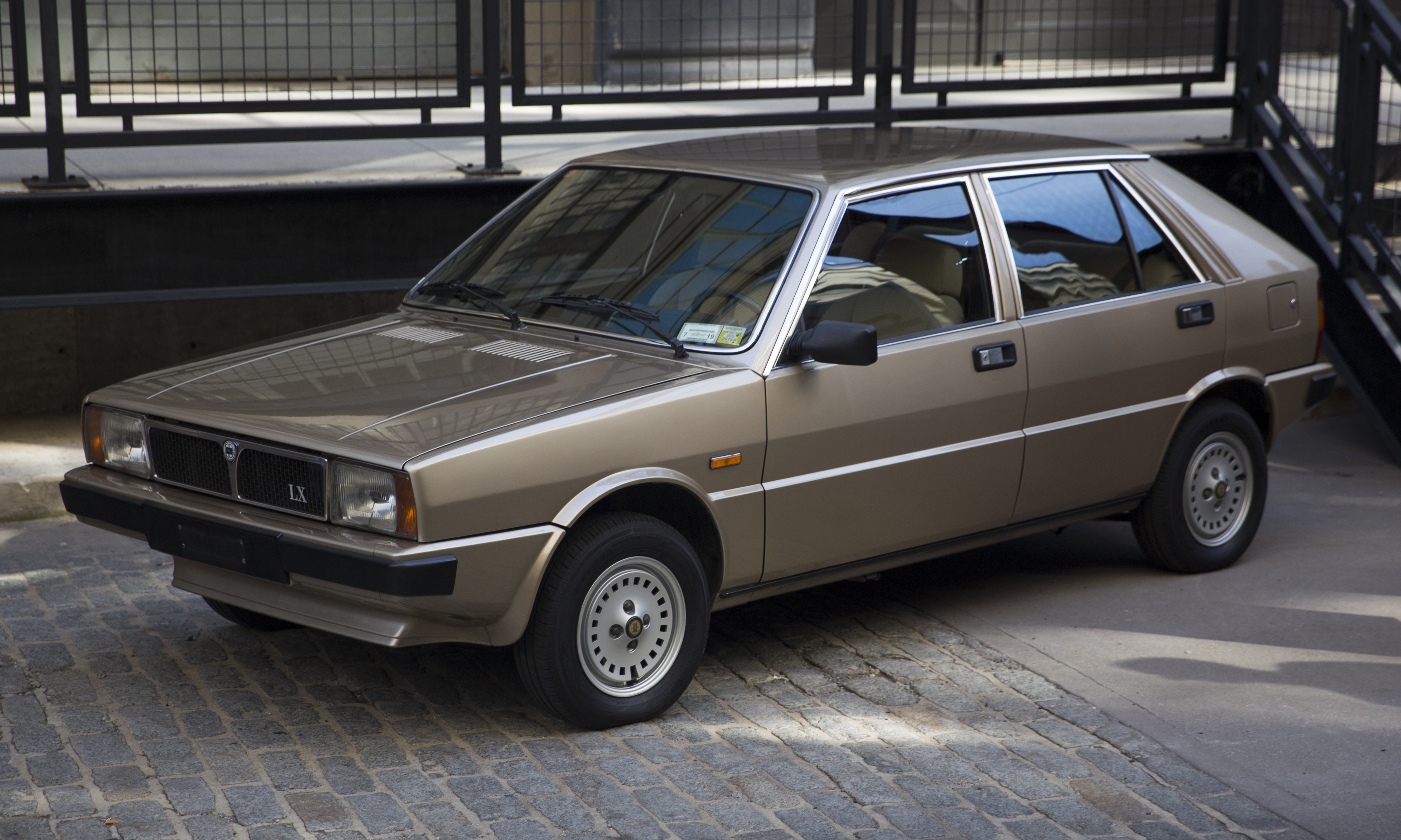 A 1982 Lancia Delta 1500 LX in Beige Chiaro Metallizzato at a car meet in Brooklyn's Industry City. Just about perfect.